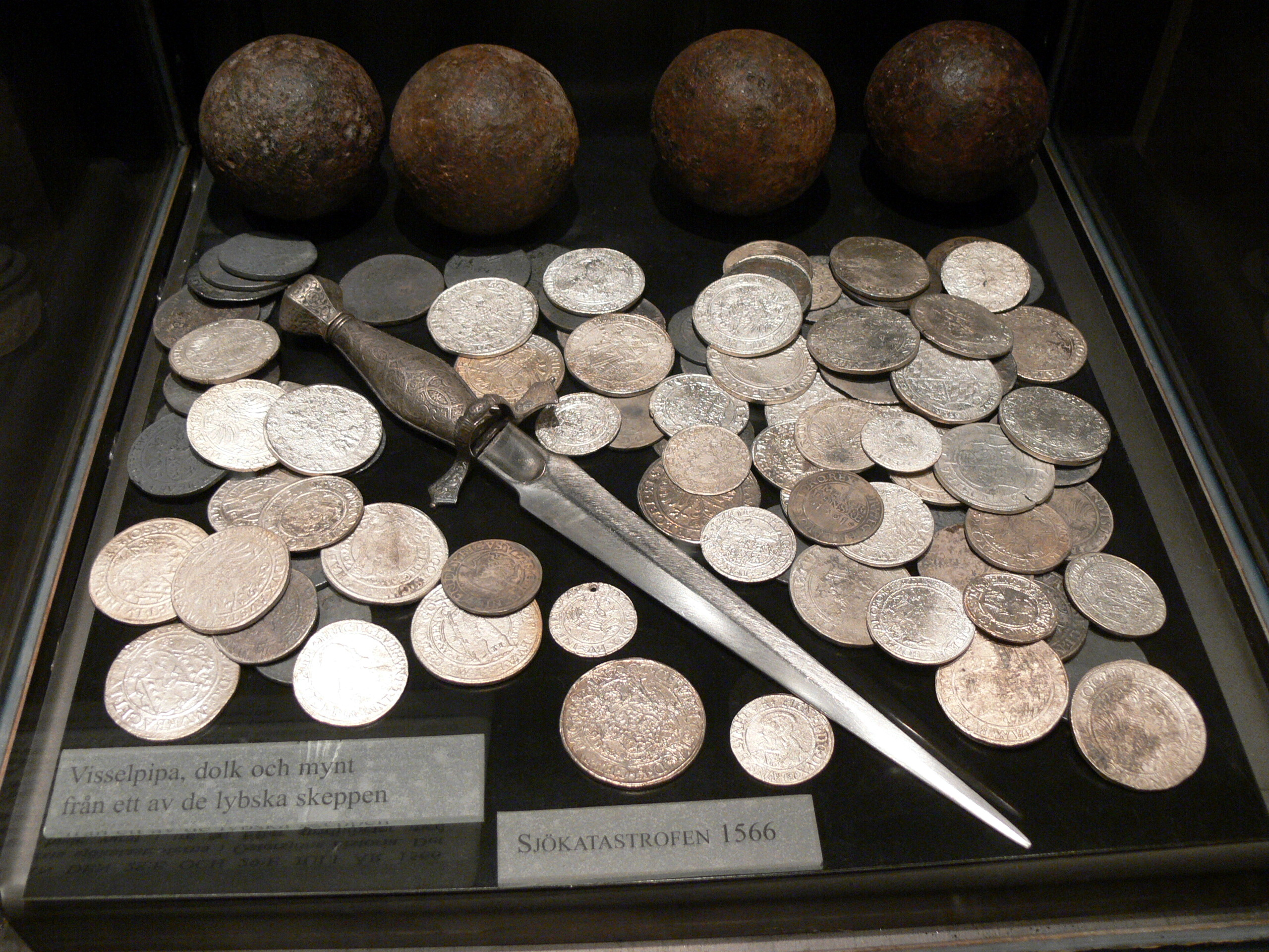 Fornsalen Museum, Visby ( Gotland ). Silver treasure from shipwreck ( 1566 )